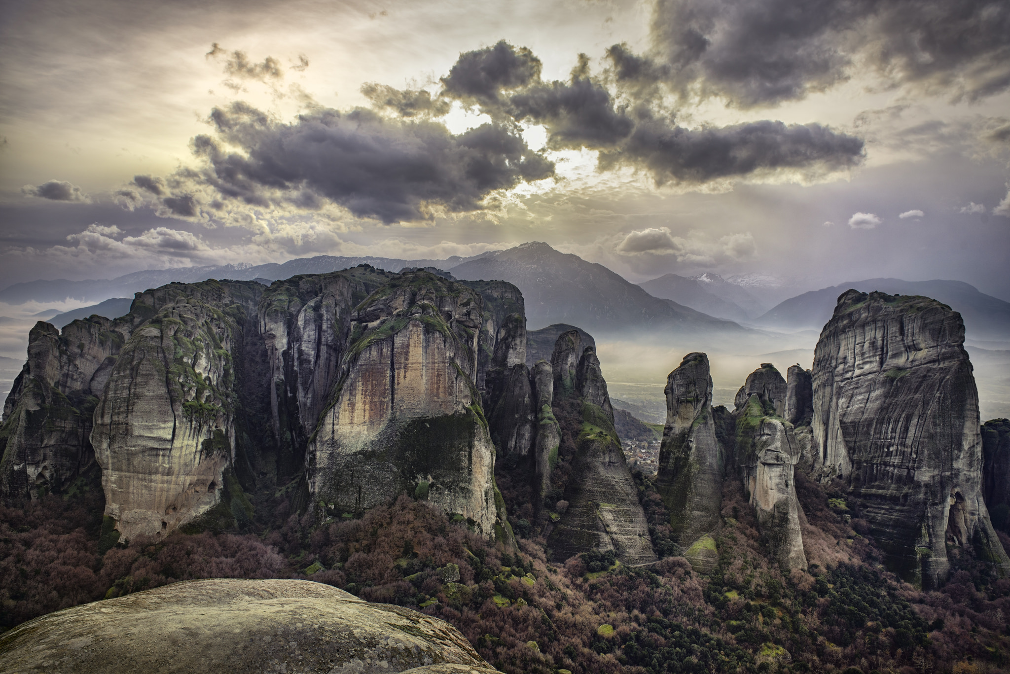 View of the Meteora This is a photography of Natura 2000 protected area with ID GR1440003